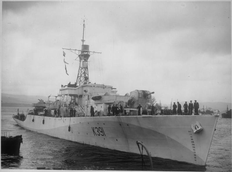 Royal Navy Loch-class frigate HMS Loch Killin